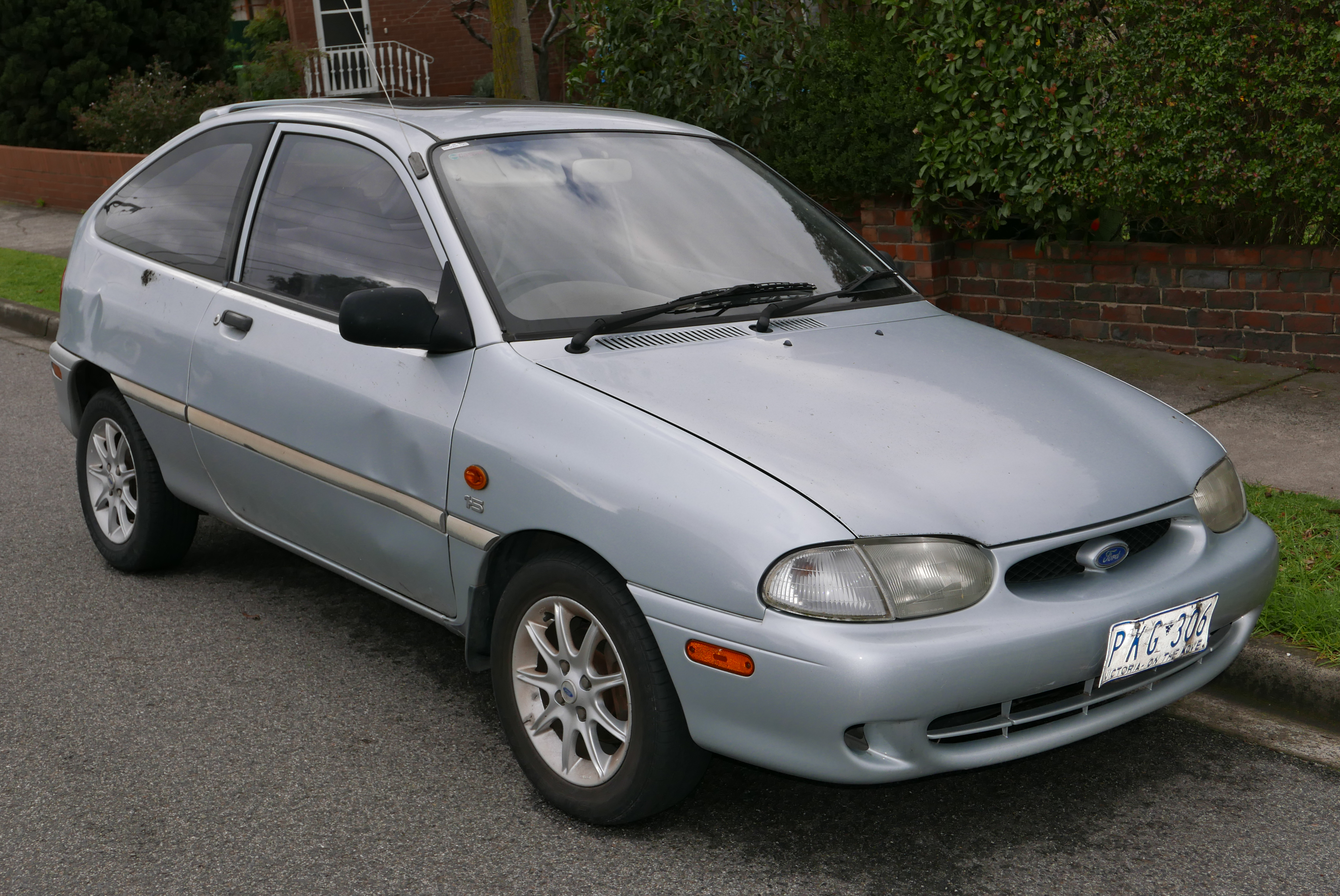 1998 Ford Festiva (WF) Trio S 3-door hatchback. This example is fitted with the optional "Demon" pack. Photographed in Ivanhoe, Victoria, Australia. Vehicle registration enquiry results Jurisdiction Victoria Registration PKG306 Chassis code KNADB1223W6375336 Engine code B5877117 Compliance date 1998-12 Year of manufacture 1999 (not a typo)